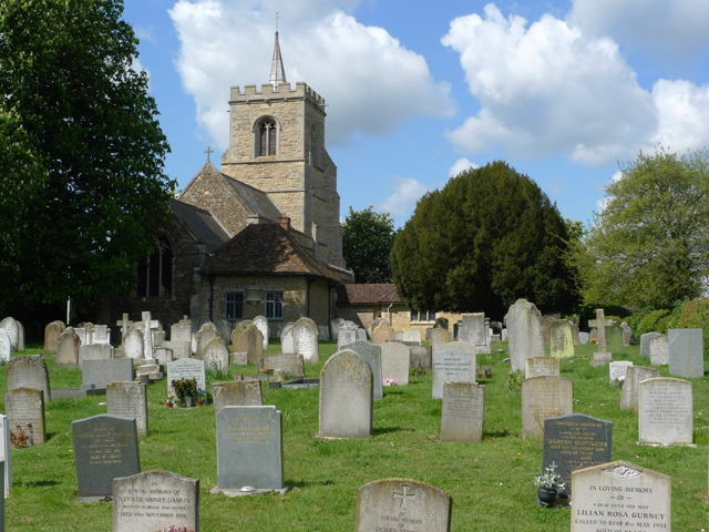 All Saints Church, Renhold, near to Renhold, Bedfordshire, Great Britain.